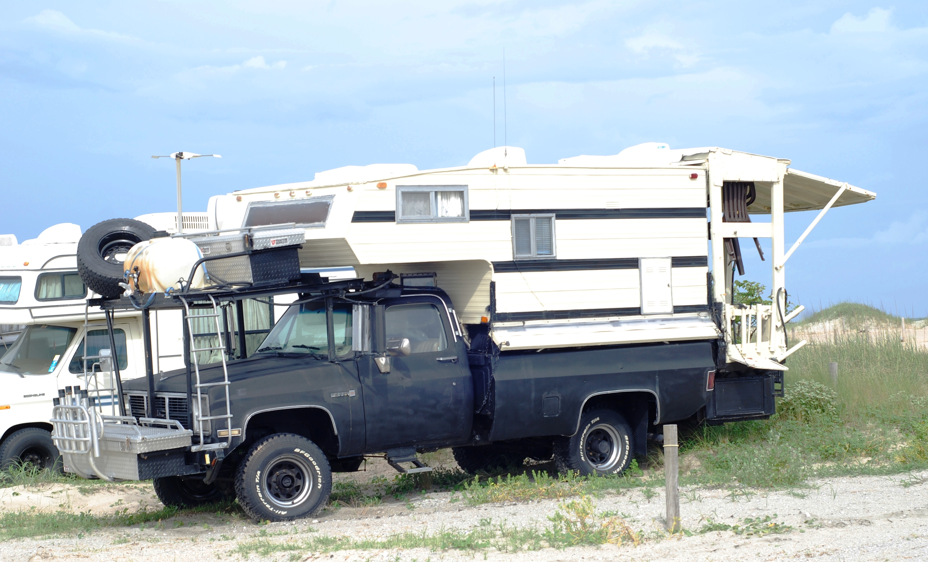 Recreational vehicle from Core Banks, North Carolina, customized for beach driving and offshore fishing.